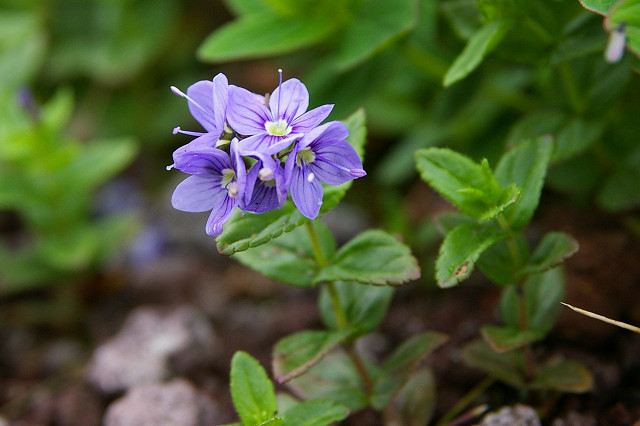 Pseudolysimachion schmidtianum subsp. schmidtianum var. yezoalpinum